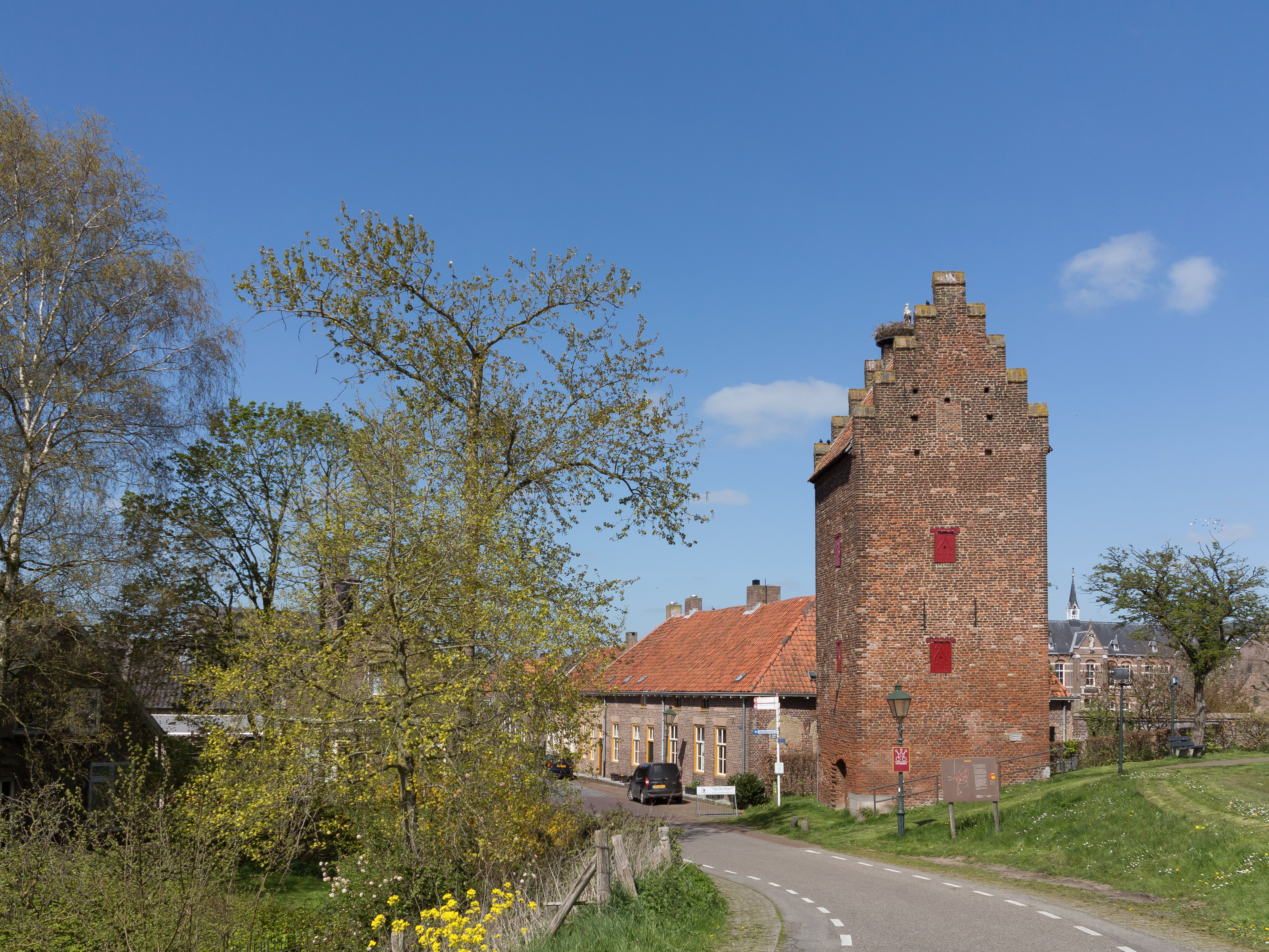 Megen, towngate and tower for prisoners (de Gevangentoren)